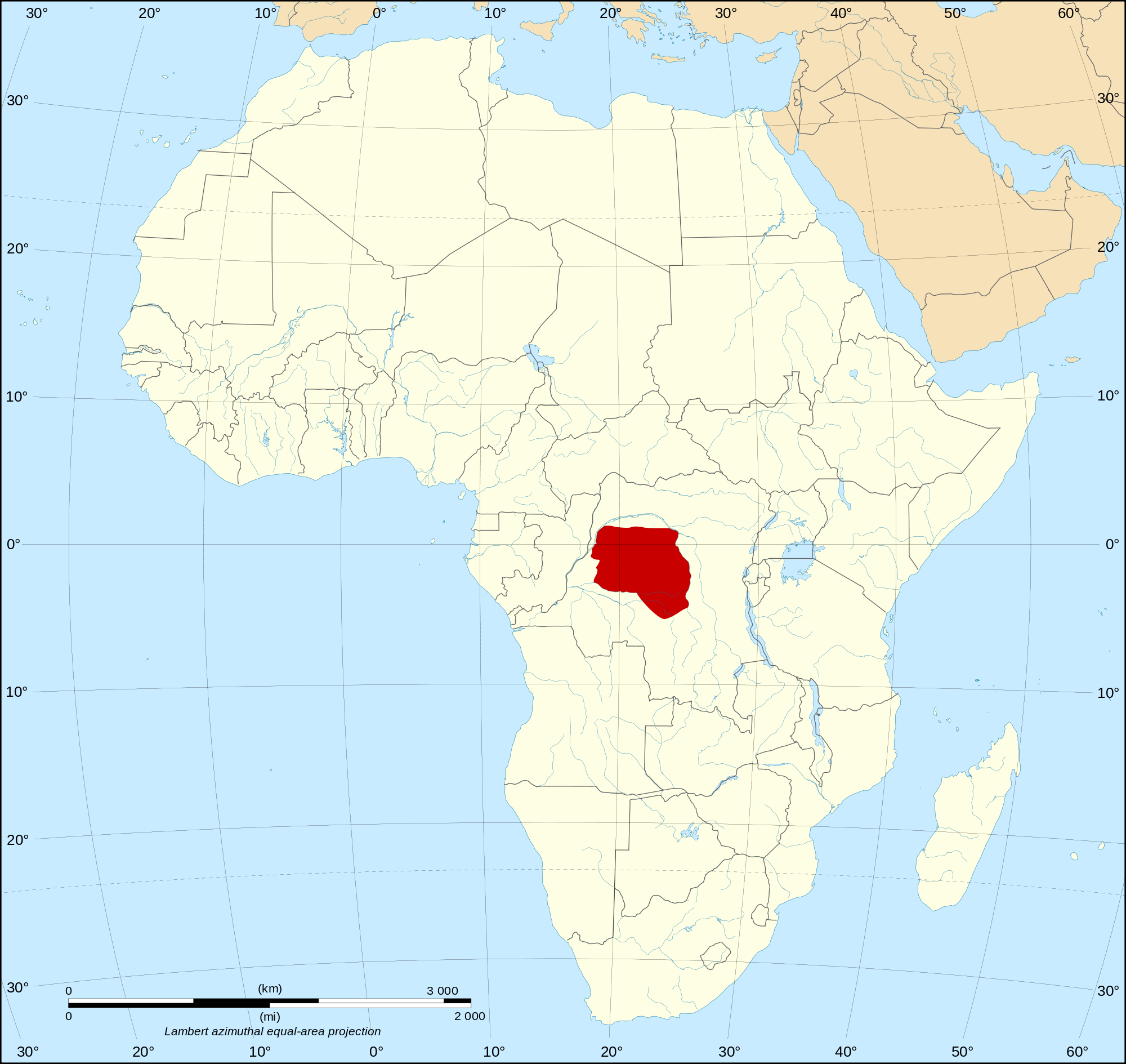 Map of bonobo's geographic distribution.